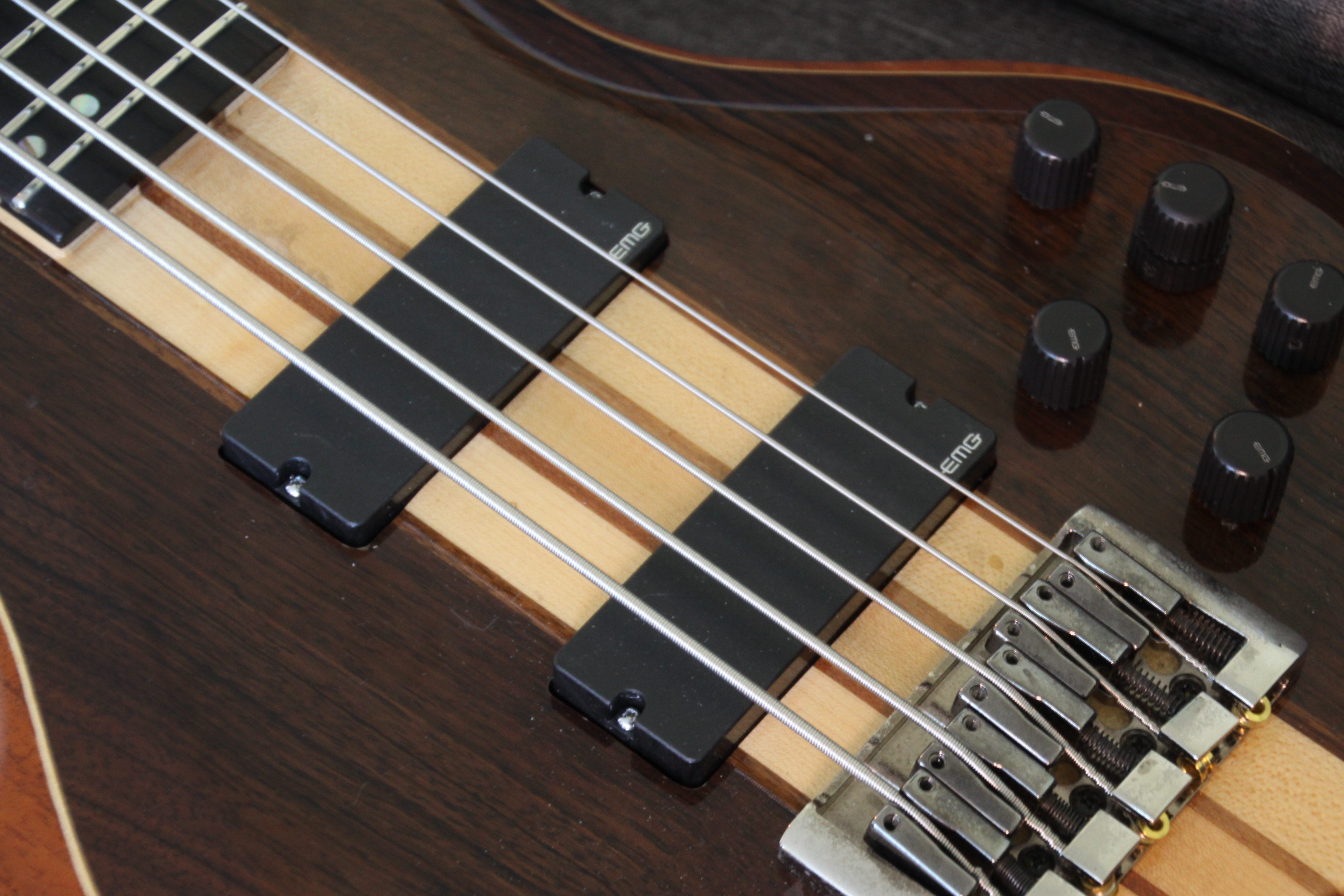 EMG DC 40 -5-string electric bass guitar pickups and BQS-active-EQ.